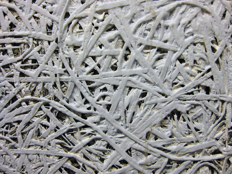 Picture of a white painted straw boards.